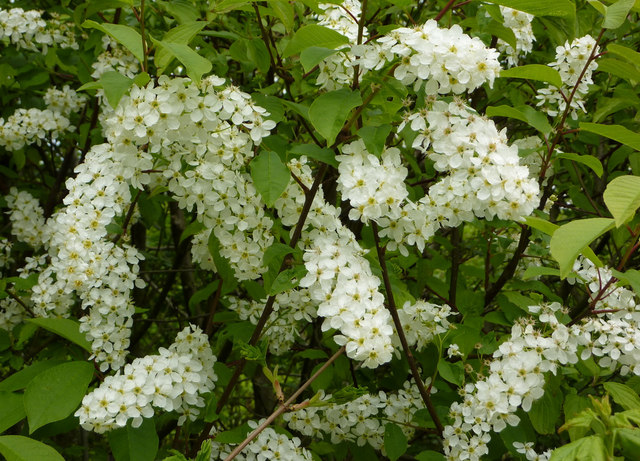 Bird cherry in blossom Bird cherry, Prunus padus, flowering in a hedgerow by a track near Pakenham. Normally it will grow into a fair sized tree.